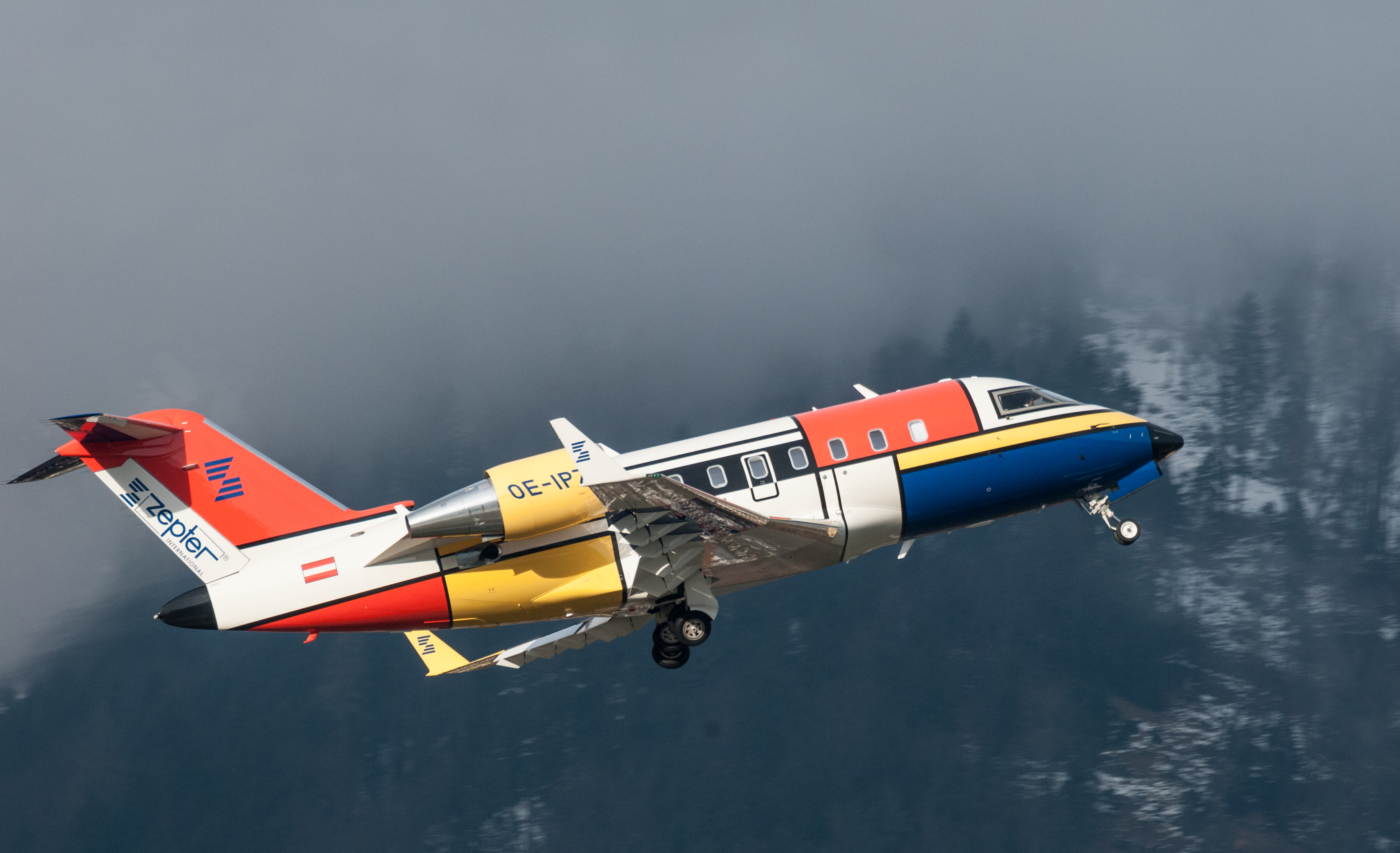 Canadair CL-600-2B16 Challenger 605 after departing from Innsbruck